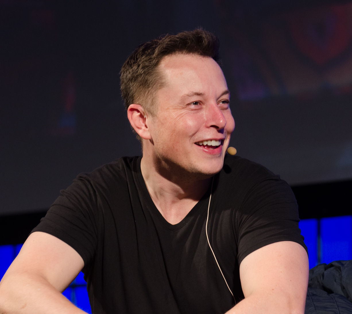 The Summit 2013 - Picture by Dan Taylor / Heisenberg Media